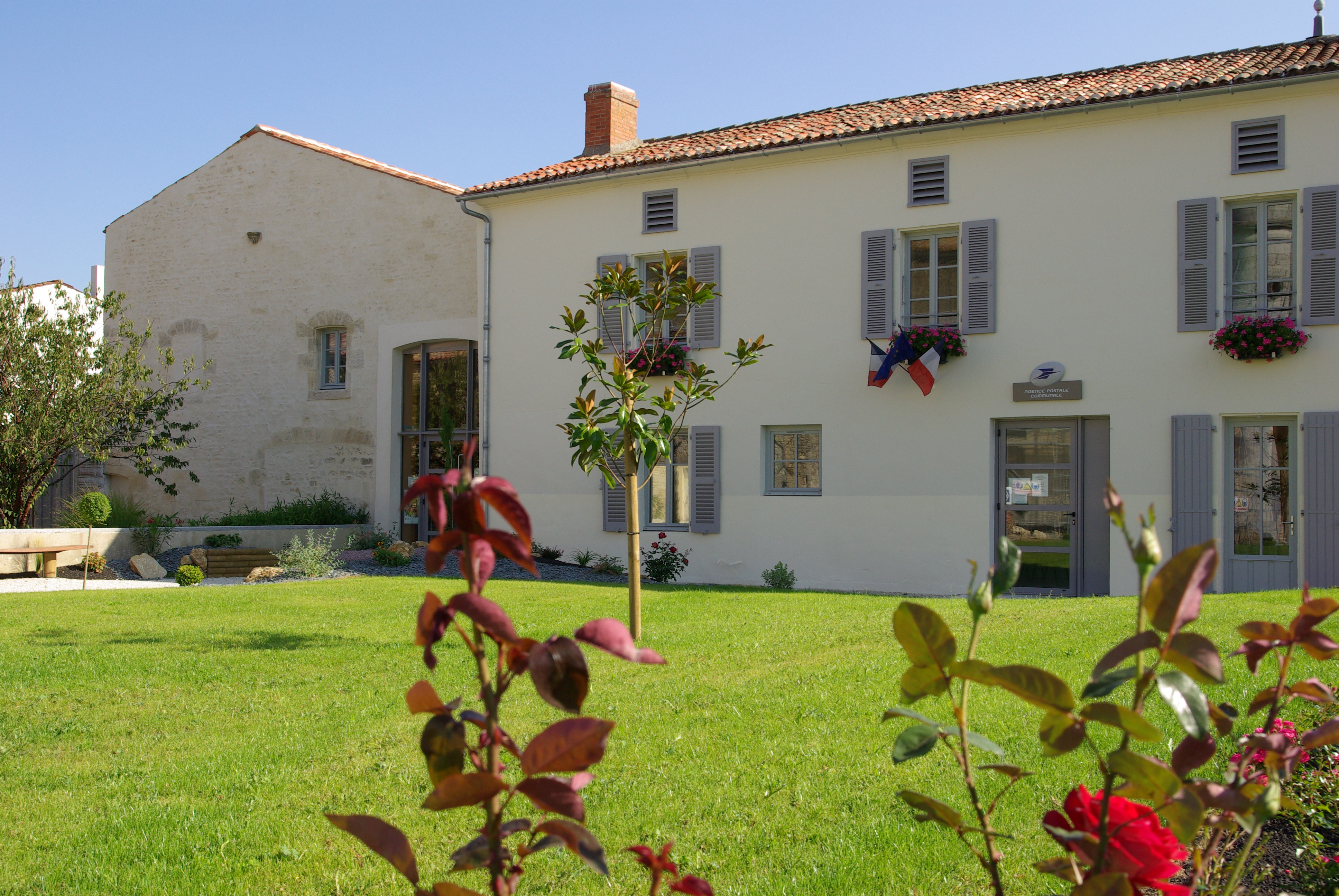 The town hall of Damvix en Vendée dans la région du Marais poitevin